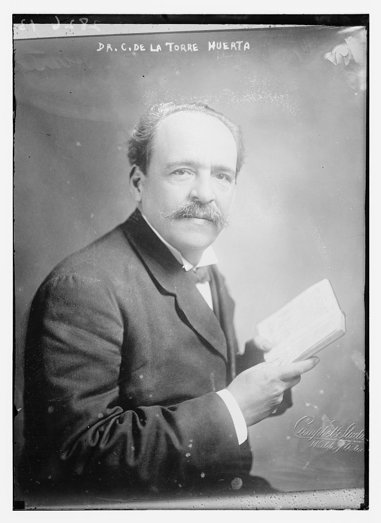 Bain News Service,, publisher. Dr. C. de la Torre Huerta [between ca. 1910 and ca. 1915] 1 negative : glass ; 5 x 7 in. or smaller. Notes: Title from unverified data provided by the Bain News Service on the negatives or caption cards. Forms part of: George Grantham Bain Collection (Library of Congress). Format: Glass negatives. Repository: Library of Congress, Prints and Photographs Division, Washington, D.C. 20540 USA, General information about the Bain Collection is available at Persistent URL: Call Number: LC-B2- 2826-13